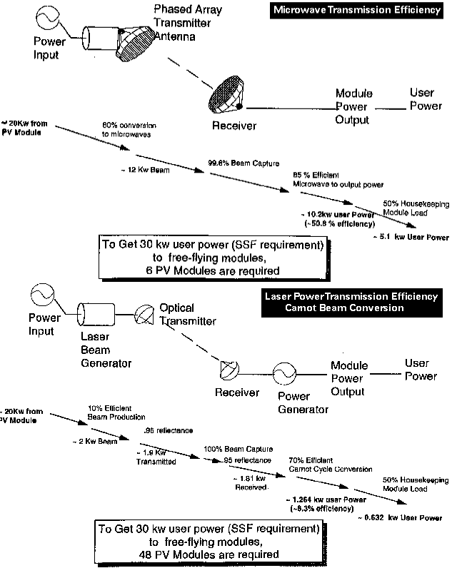 Figure 3.8.2.2-27. Comparison of Laser and Microwave Power Transmission for Space Station Power (space solar power) (solar power satellite)